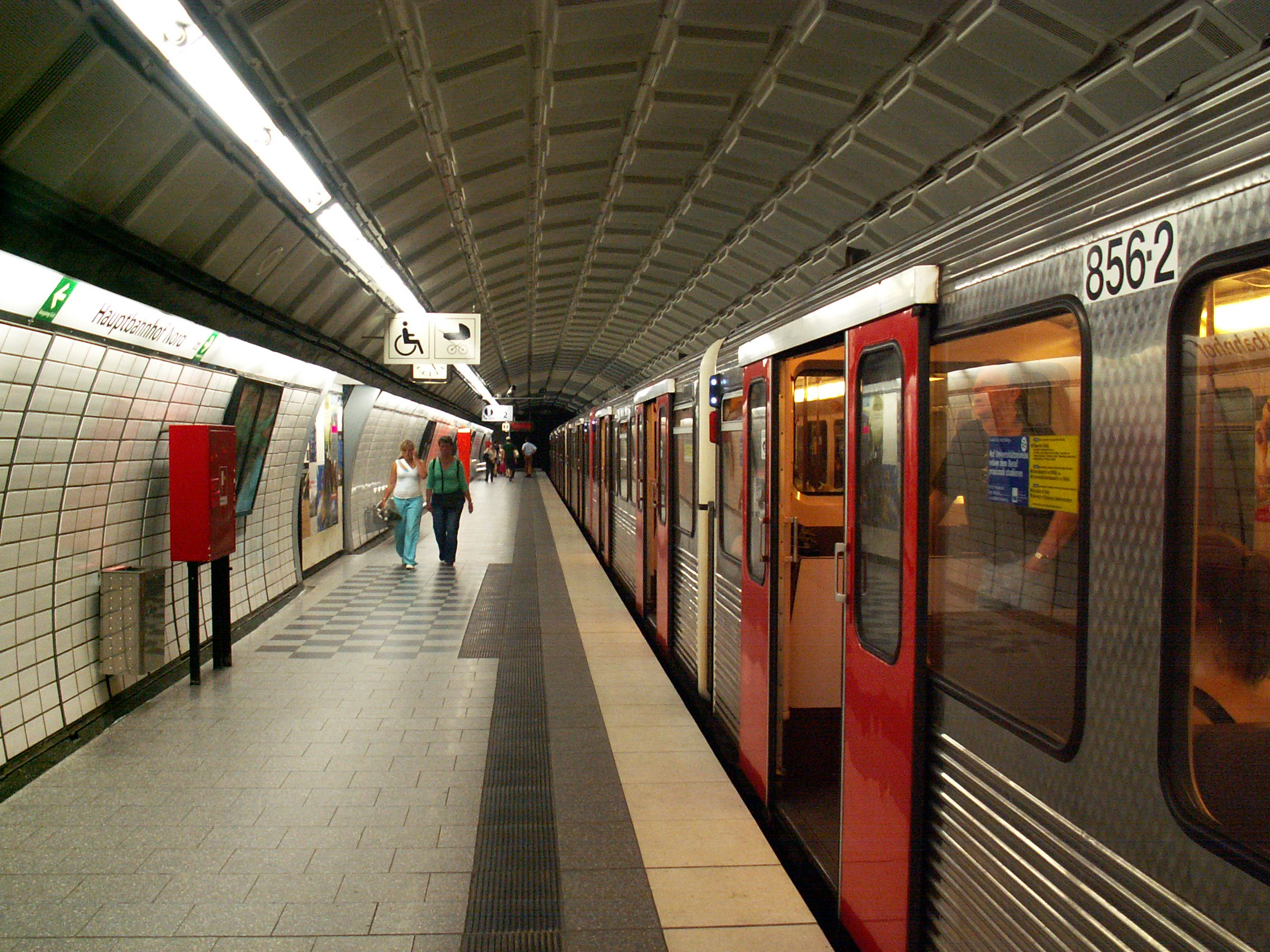 Hamburg metro at Hauptbahnhof Nord